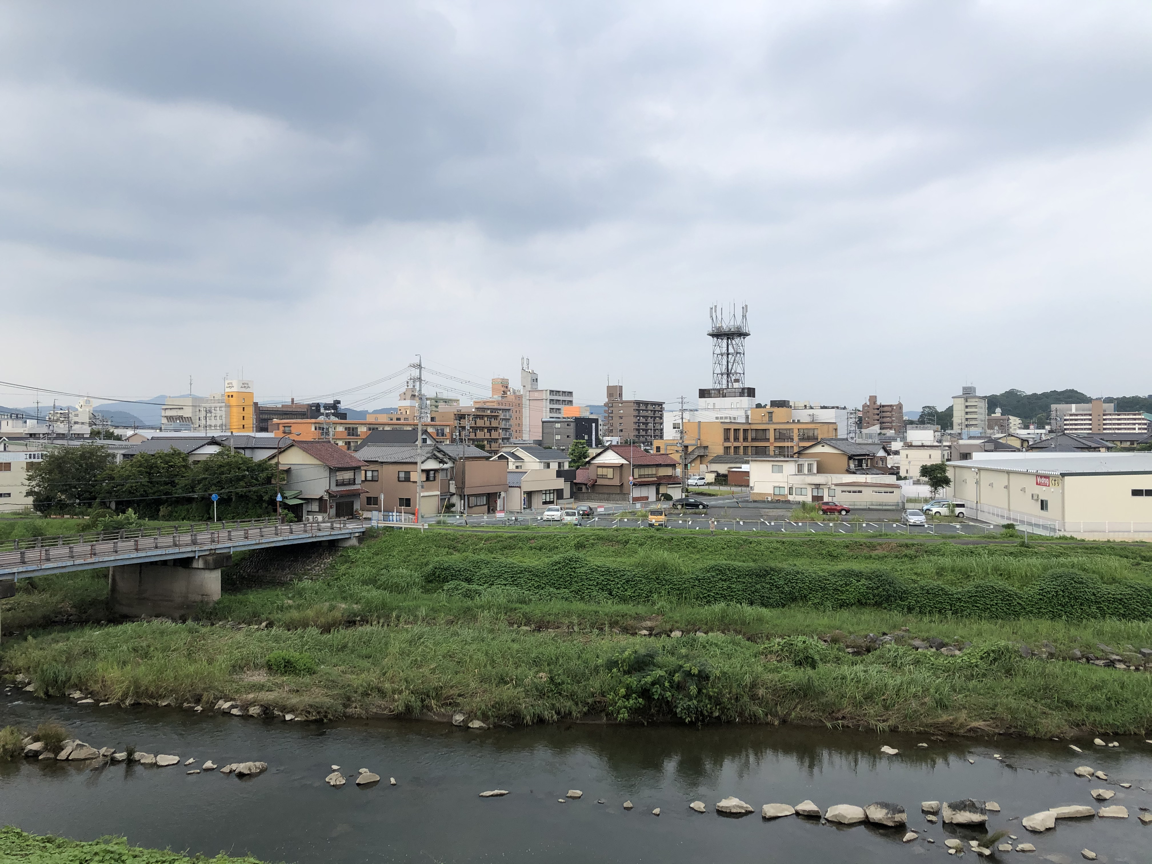 Hiromi Town Skyline01